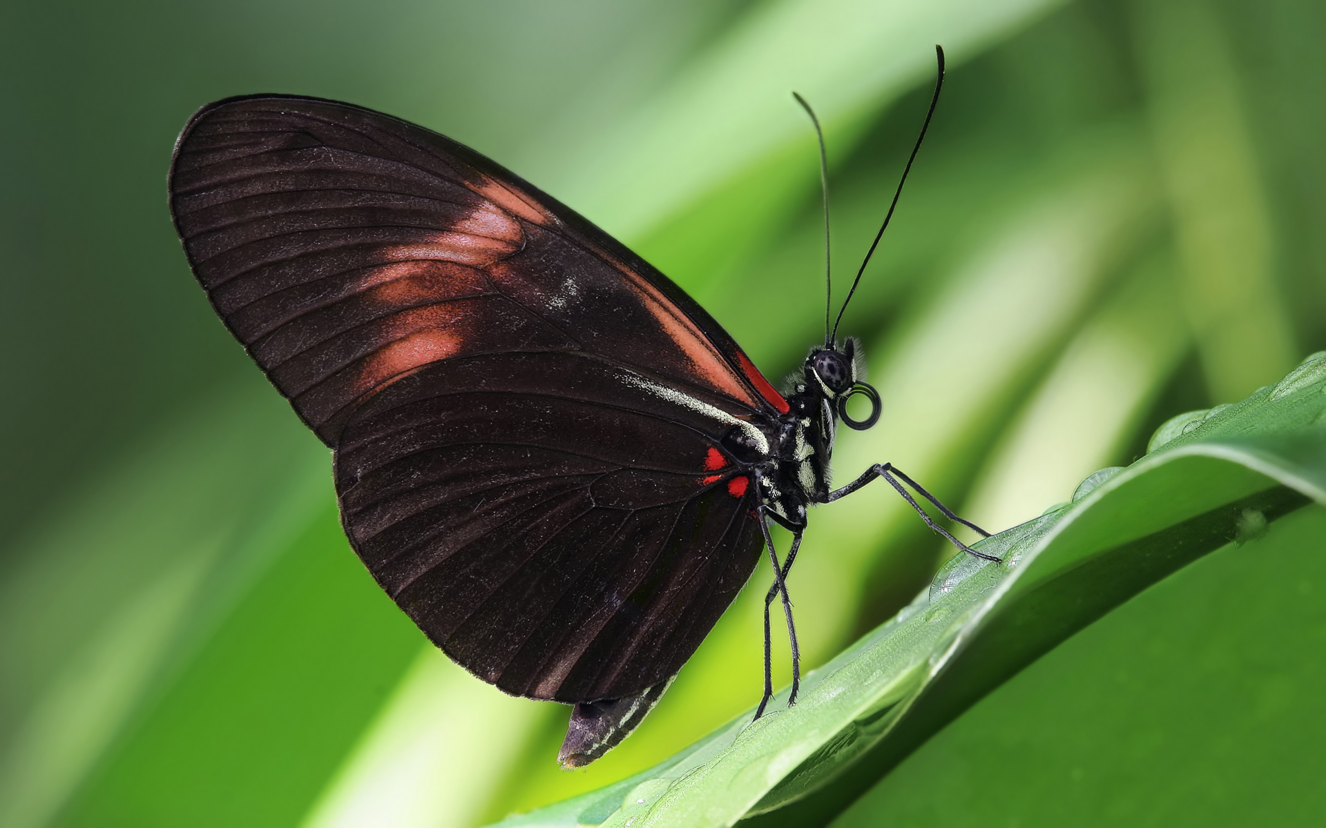 Heliconius comprise a colorful and widespread butterfly genus distributed throughout the tropical and subtropical regions of the New World. As shown Heliconius melpomene